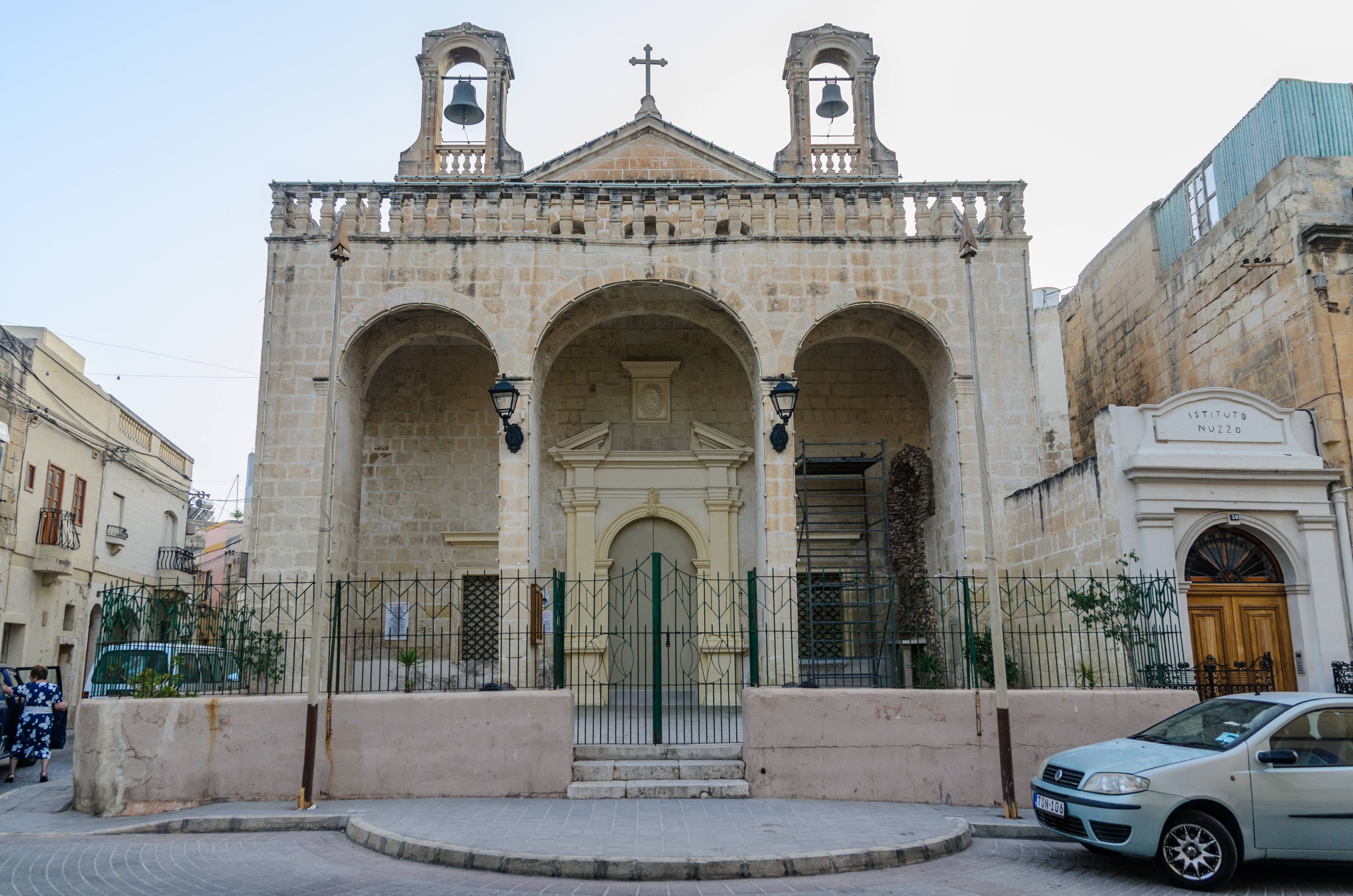 Church of the Black Madonna in Ħamrun, Malta